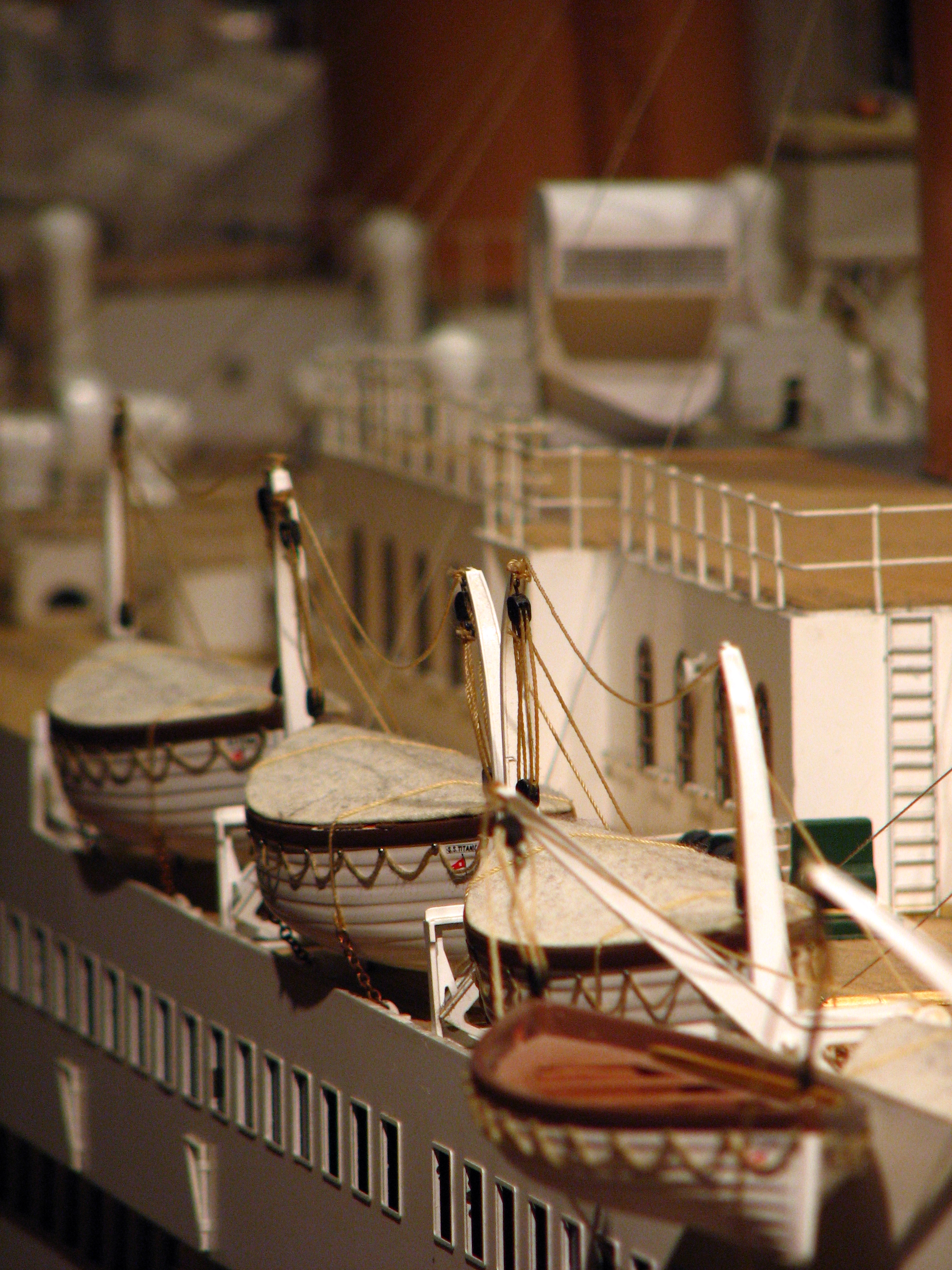 Arrangement of lifeboats on Titanic, as seen on a large-scale model of the ship